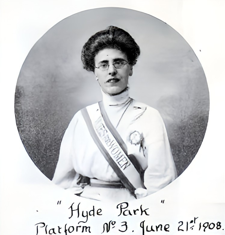 Louis Cullen double image see wiki